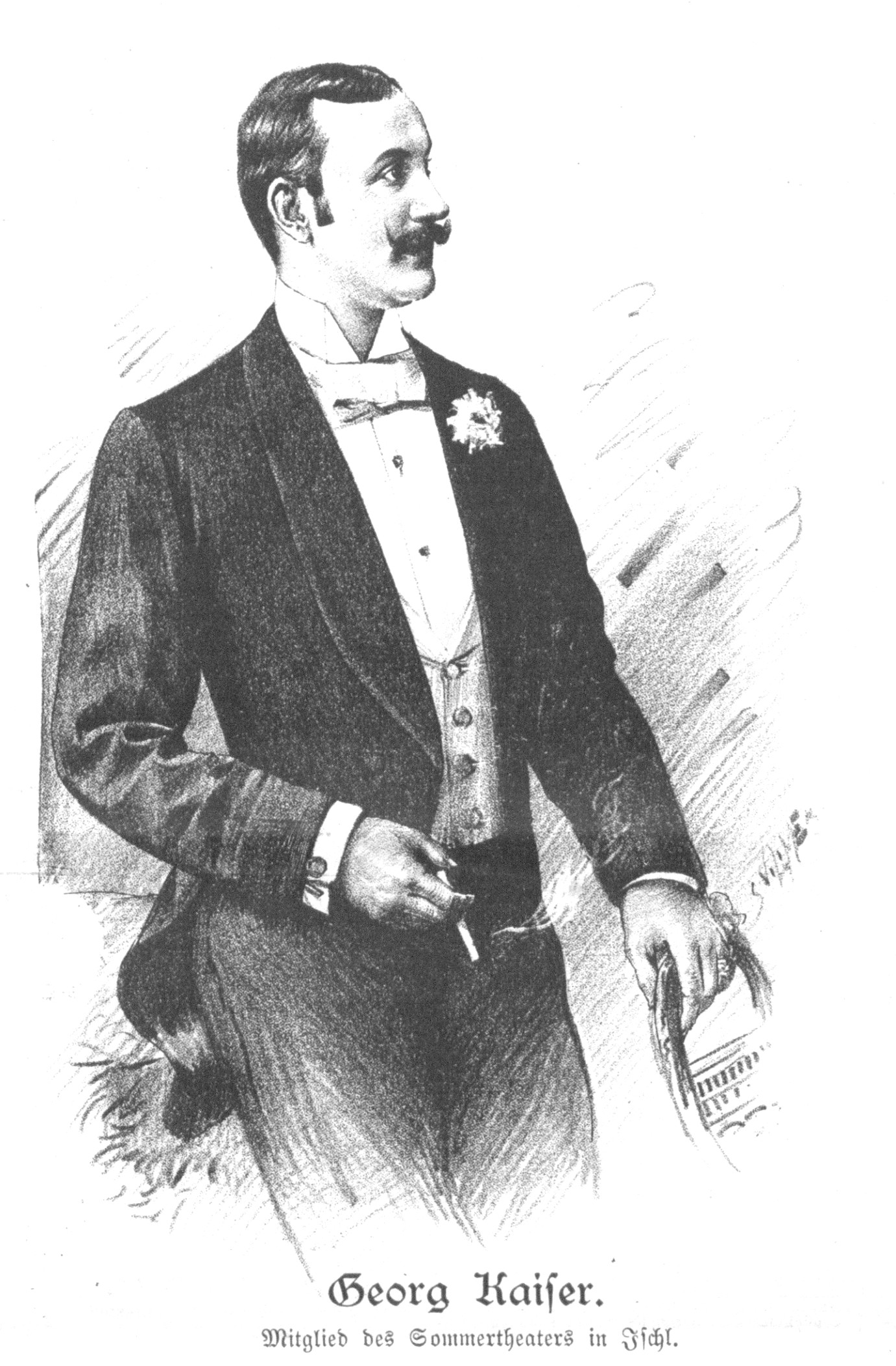 Portrait of Georg Kaiser, German and Austrian actor, then member of a summer theater in Bad Ischl.